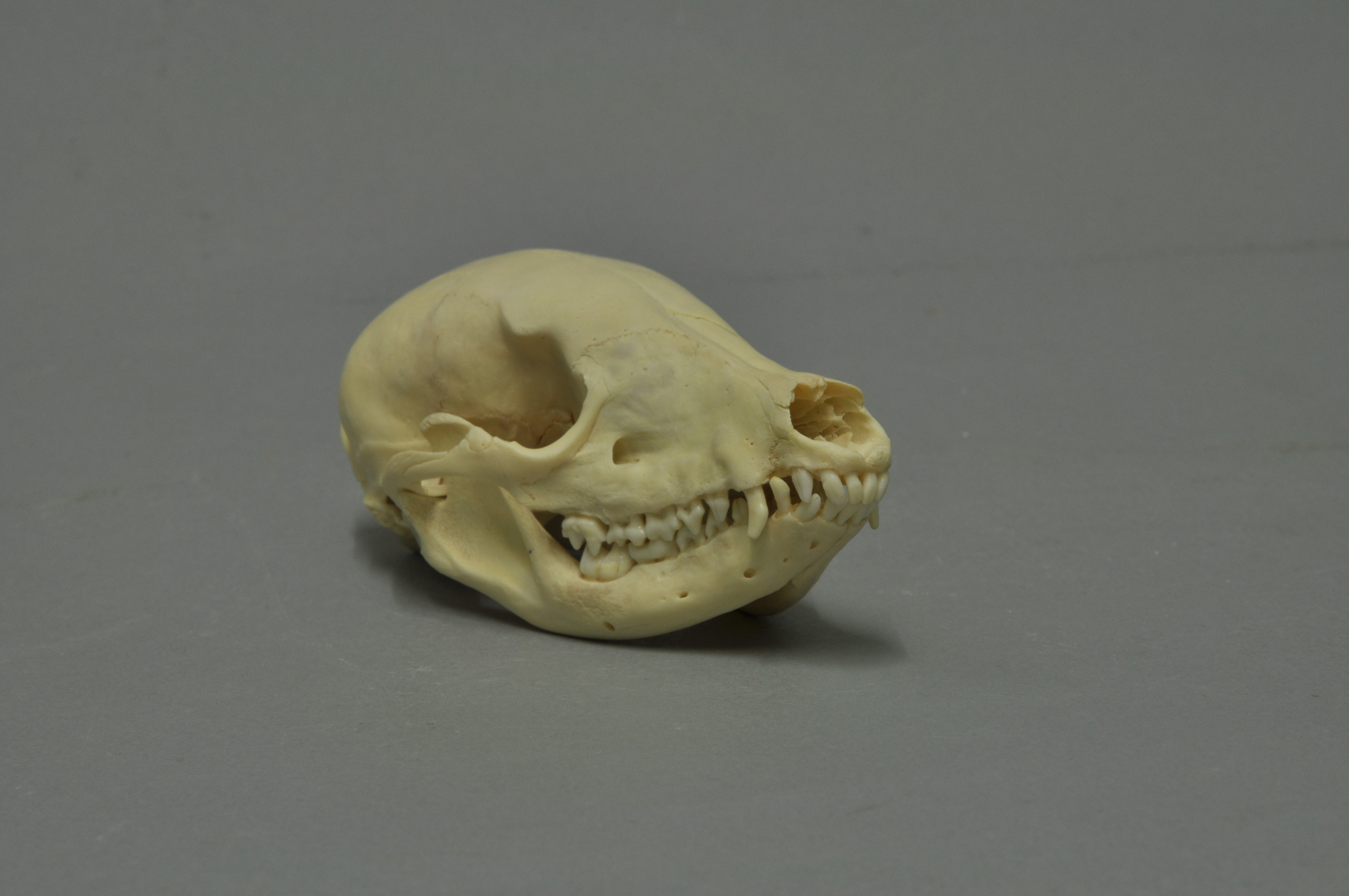 South American coati , skull, Coll. Museum Wiesbaden